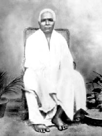 Gopaler Ma, the woman devotee of Sri Ramakrishna